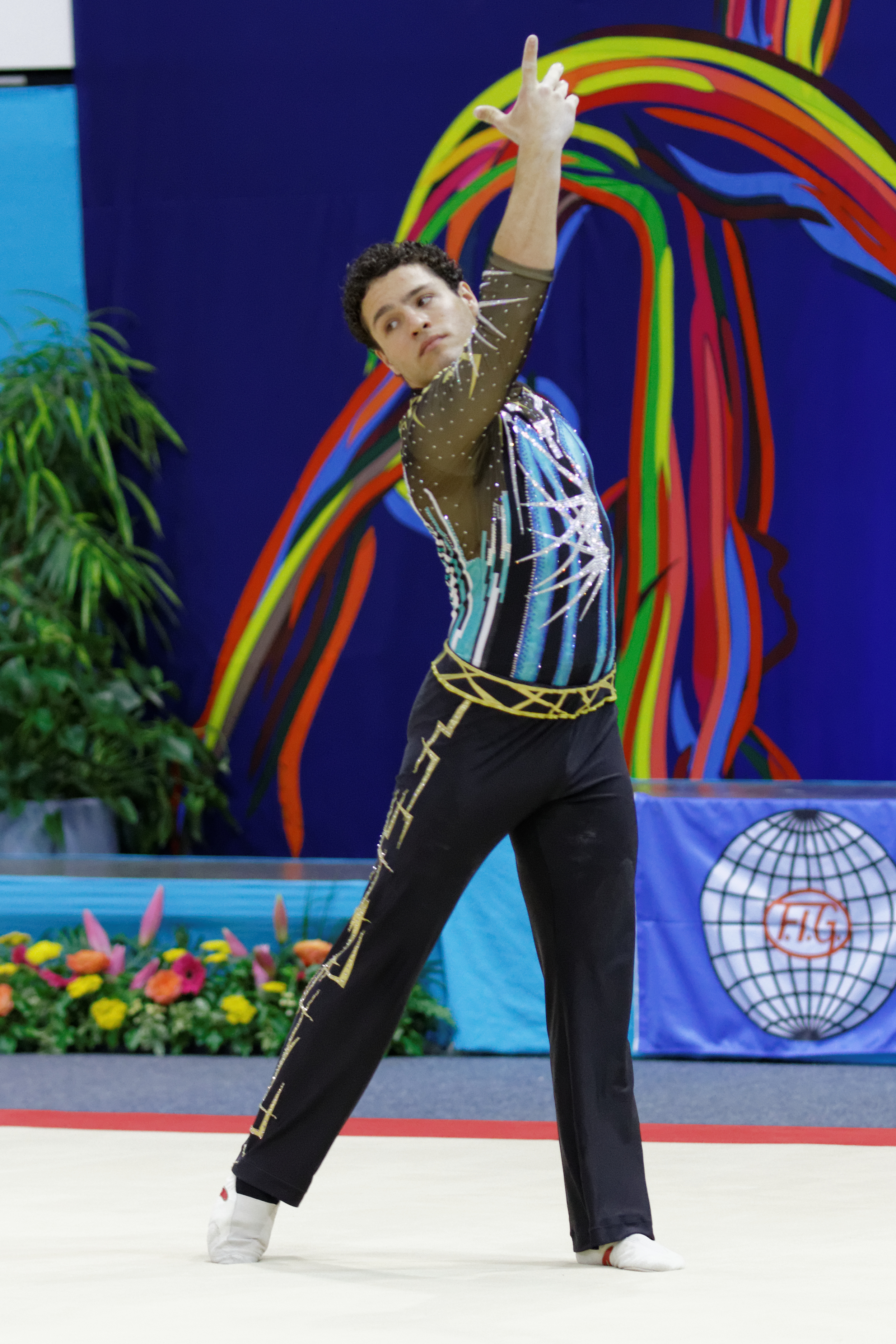 2014 Acrobatic Gymnastics World Championships, 10th-12 July, Levallois-Perret, France. Qualifications: mixed pair. USA.